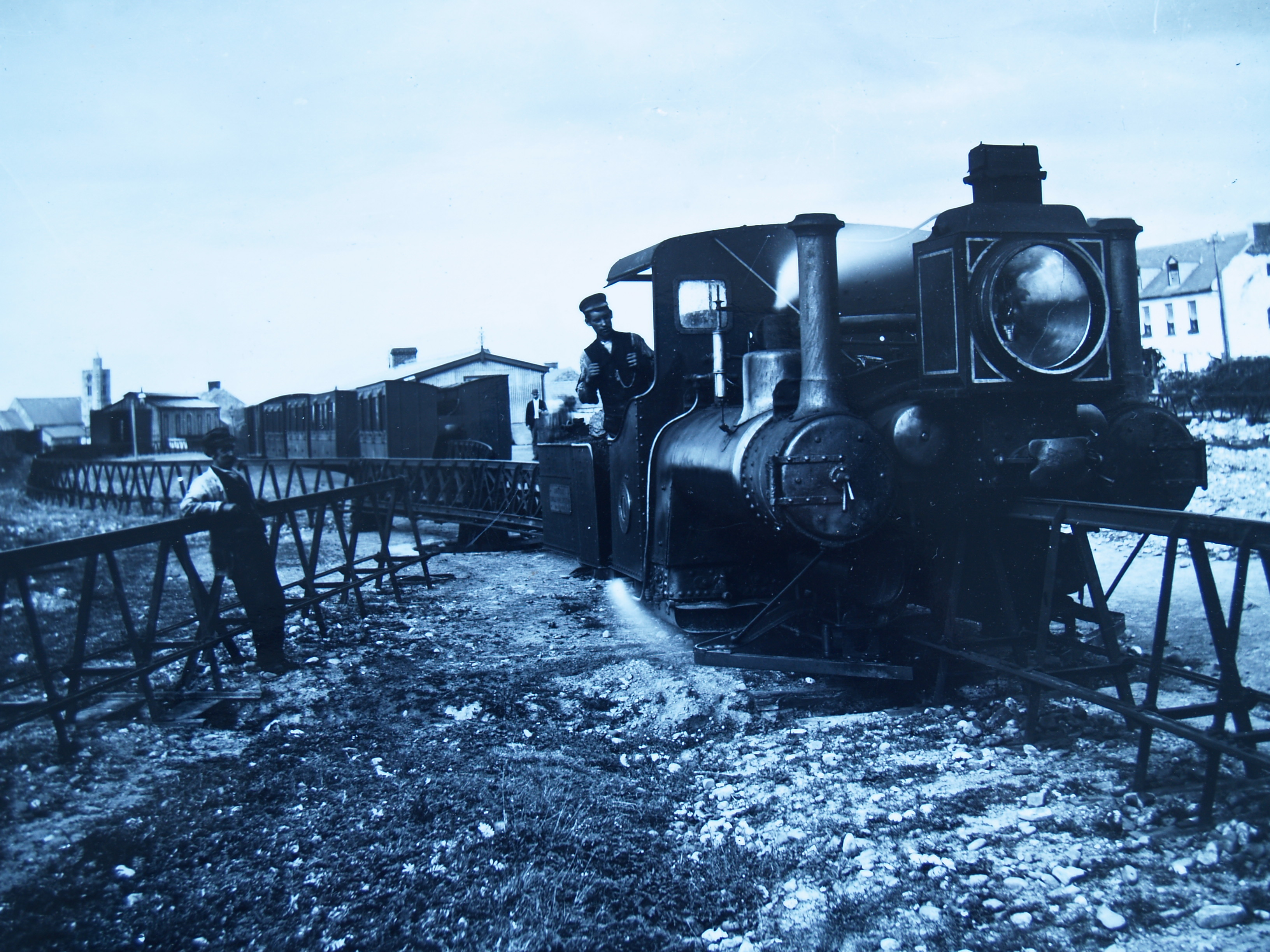 I found this old picture in my fathers old photo album. He lived in his youth in Ballybunion, Co. Kerry, Ireland. The pictures are from the beginning of the 20th century. My father died in 1996. So I can´t ask him from whom he got the pictures. I remember that I saw waggon of this train on a farm near Ballybunion in 1990. The waggon was still a wreck. But it stands on a part of the railway. The Lartigue Monorail system was invented by the French engineer Charles Lartigue (1834-1907). The most famous Lartigue railway was the Listowel and Ballybunion Railway. This was a 14.4-km (9-mi) monorail built on the Lartigue principle in County Kerry in Ireland. It linked Listowel and Ballybunion; it opened on 1 March 1888. The locomotives were of the 0-6-0 type (strictly speaking, '0-3-0'), constructed by the Hunslet Engine Company. They were specially built with two boilers in order to balance on the track. Loads also had to be evenly balanced. If a farmer wanted to send a cow to market, he would have to send two calves to balance it, which would travel back on opposite sides of the same freight wagon, thereby balancing each other. Another problem with using the Lartigue system in populated areas was that, due to the track's design, it was not possible to build level crossings. In order for a road to cross the track, a kind of double-sided drawbridge had to be constructed, which required an attendant to operate it. The line closed in 1924 after the track was damaged during the Irish Civil War, and everything was scrapped except a short section of the track.